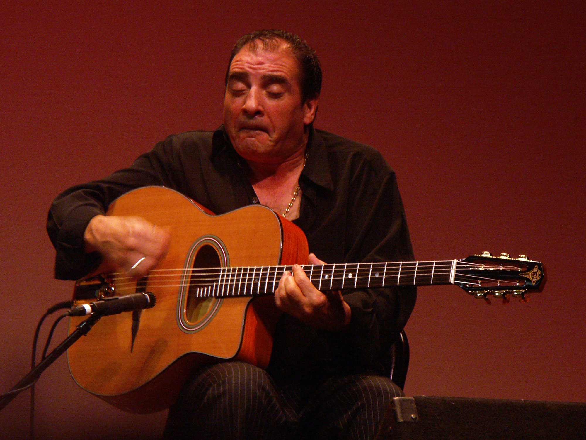 Tchavolo Schmitt, Djangofest Northwest South Whidbey High School Auditorium, 8:00 pm evening show, Saturday Sept. 30, 2006 - Set 5 SWHS - Langley, Whidbey Island, WA